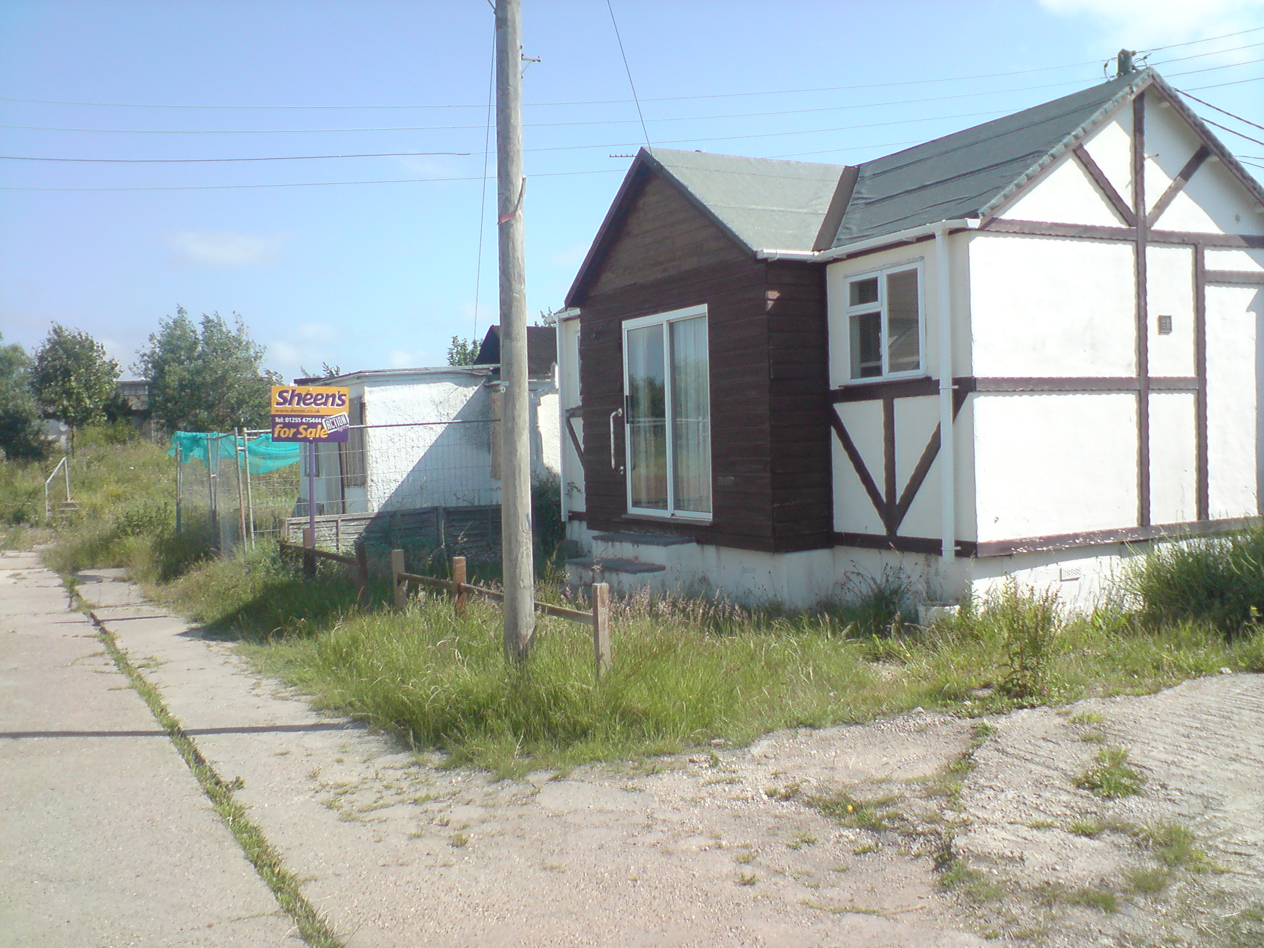 Empty house inJaywick